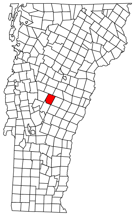 Map of Vermont towns with Braintree highlighted